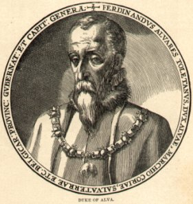 Fernando Álvarez de Toledo, 3rd Duke of Alba, scanned from 1885 Cyclopaedia of Universal History